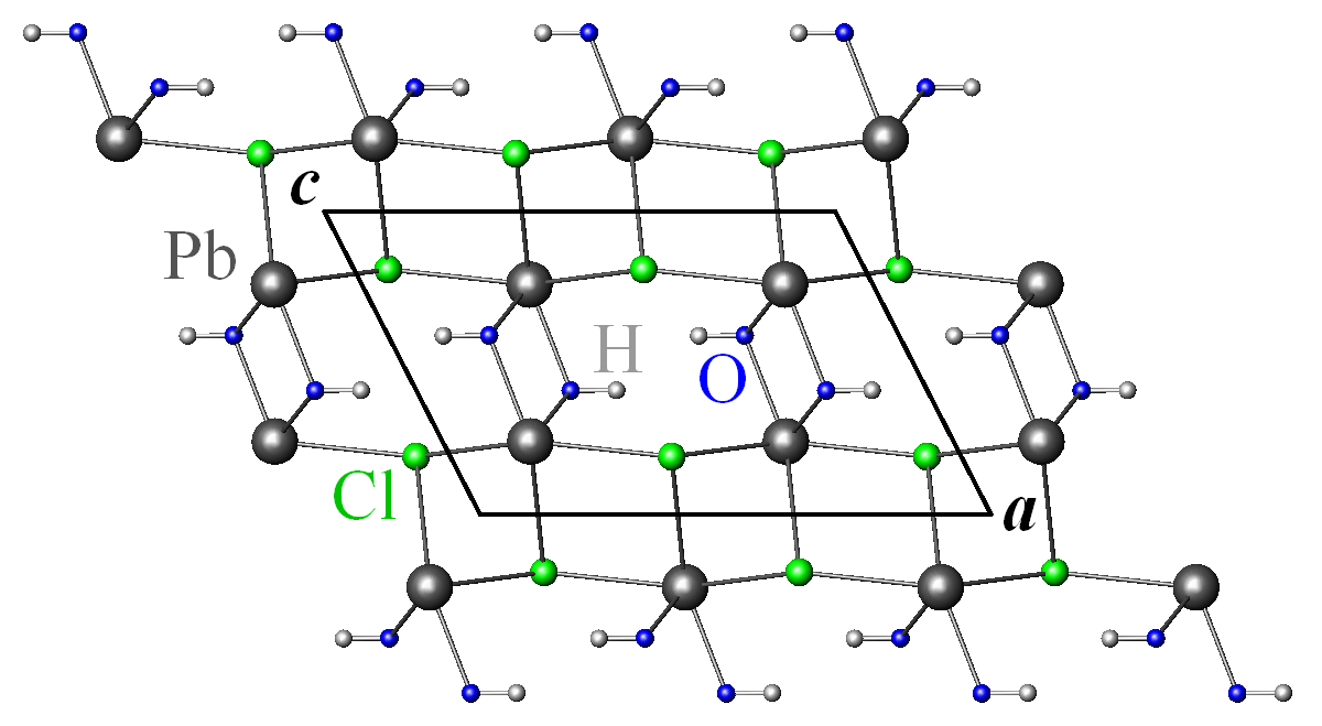 Crystal structure of paralaurionite, PbCl(OH), C2/m, projected onto the (a,c) plane. Dark gray: lead atoms, green: chlorine atoms, blue: oxygen atoms, light gray: hydrogen atoms.